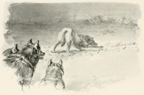 Lobo unearthing the traps